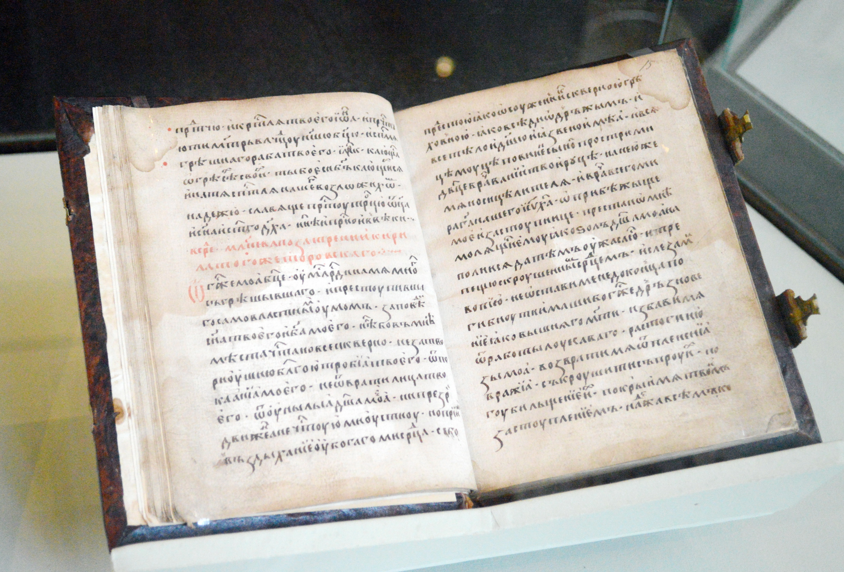 Prayer book by Kirill of Turov (middle - second half of 12 c.), 16 c. manuscript.